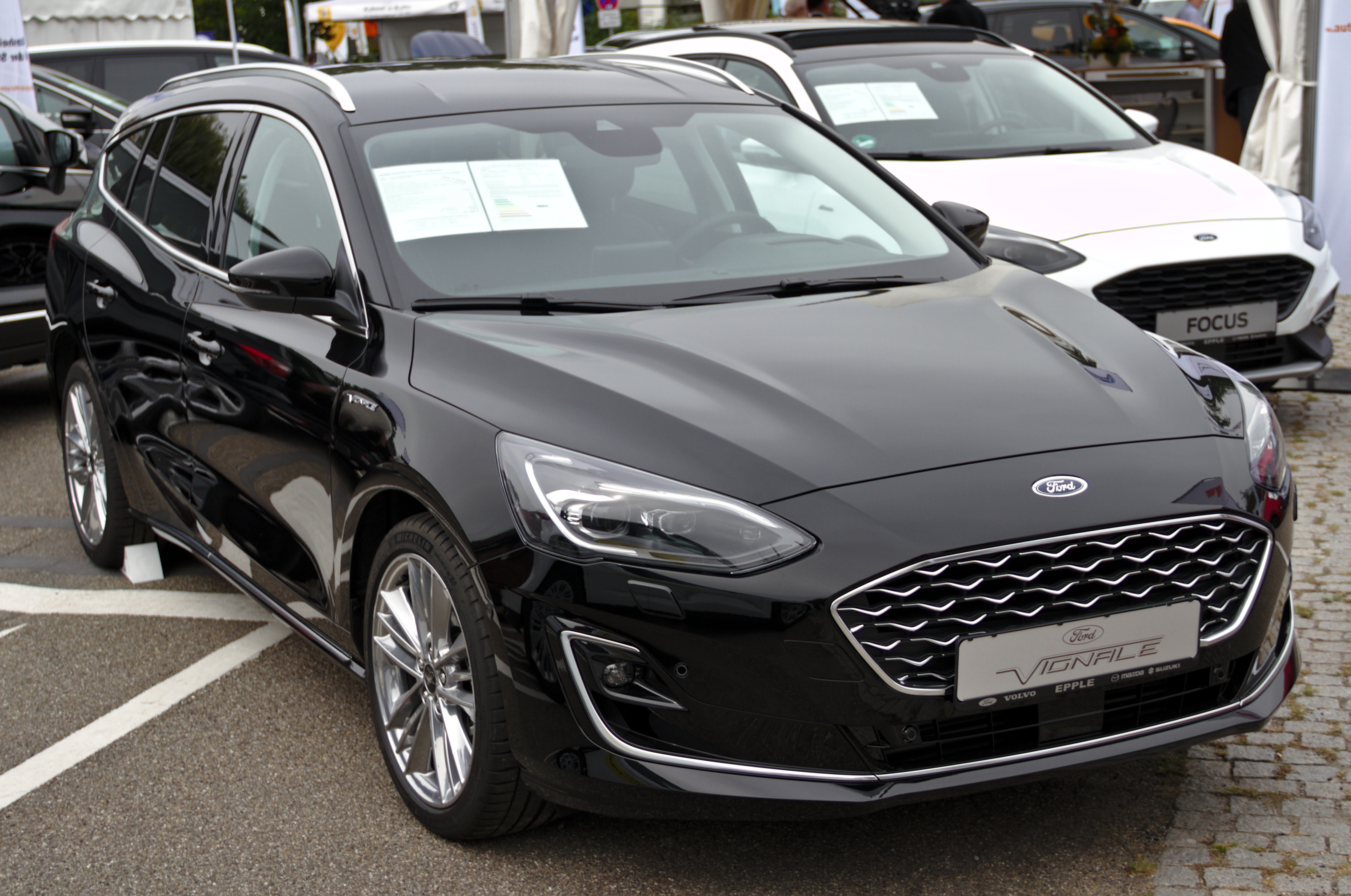 Ford_Focus_Turnier_Vignale at Leonberger Autoschau 2019